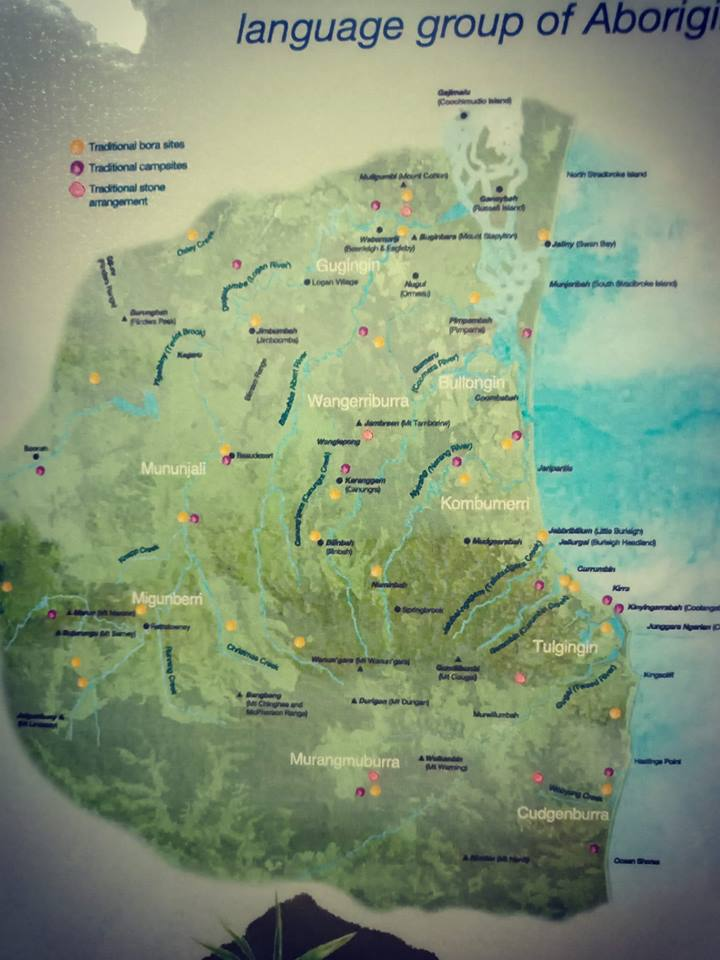 Photo of clan map from Yugambeh Museum exhibition